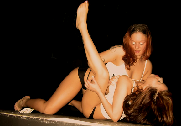 Live on the "Behind The Decks" tour at The Rave in Milwaukee, WI on 1/20/07.